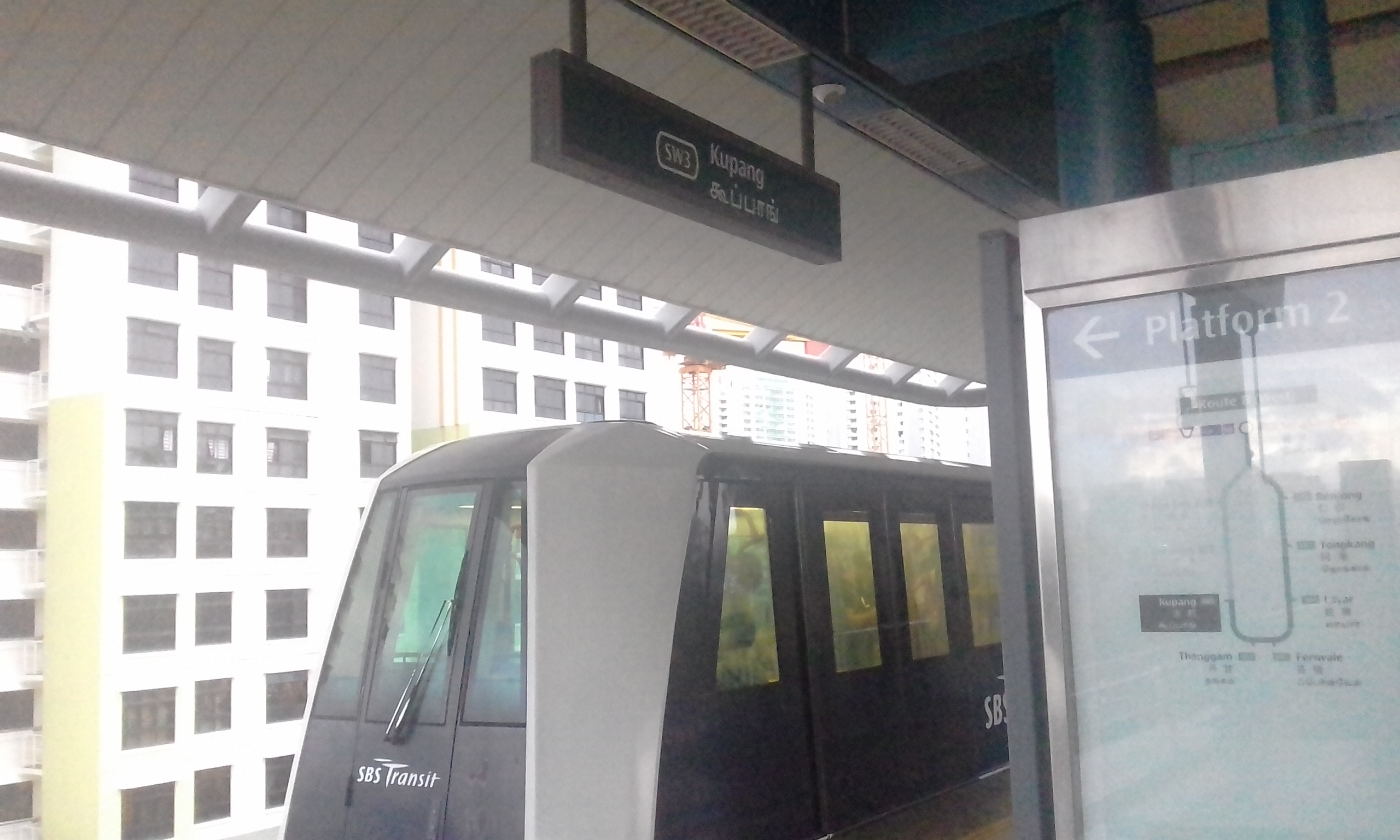 Kupang LRT